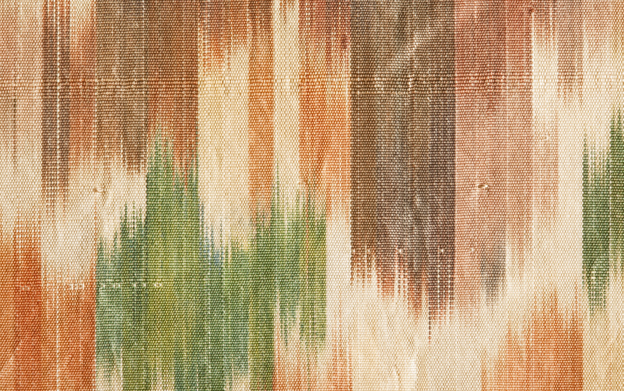 France, 1760s Costumes; principal attire (entire body) Chiné silk taffeta Gift of Mrs. Frederick Kingston (M.60.36.1) Costume and Textiles